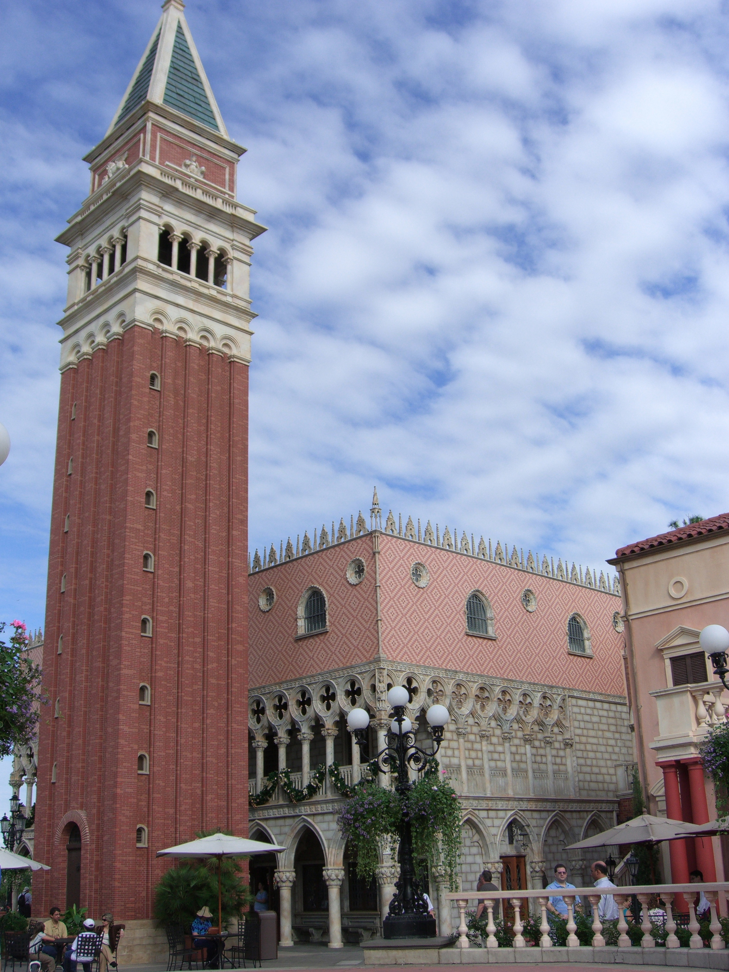 Entrance with the Campanile and Doge's palace at the Italy pavillion at Epcot.